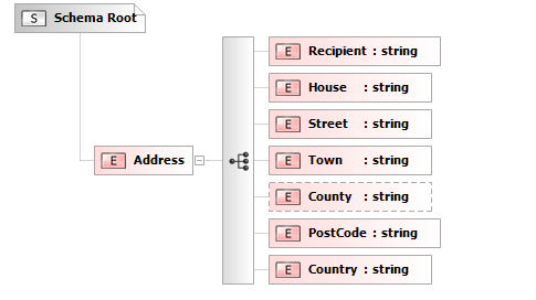 Diagram of the Schema code sample